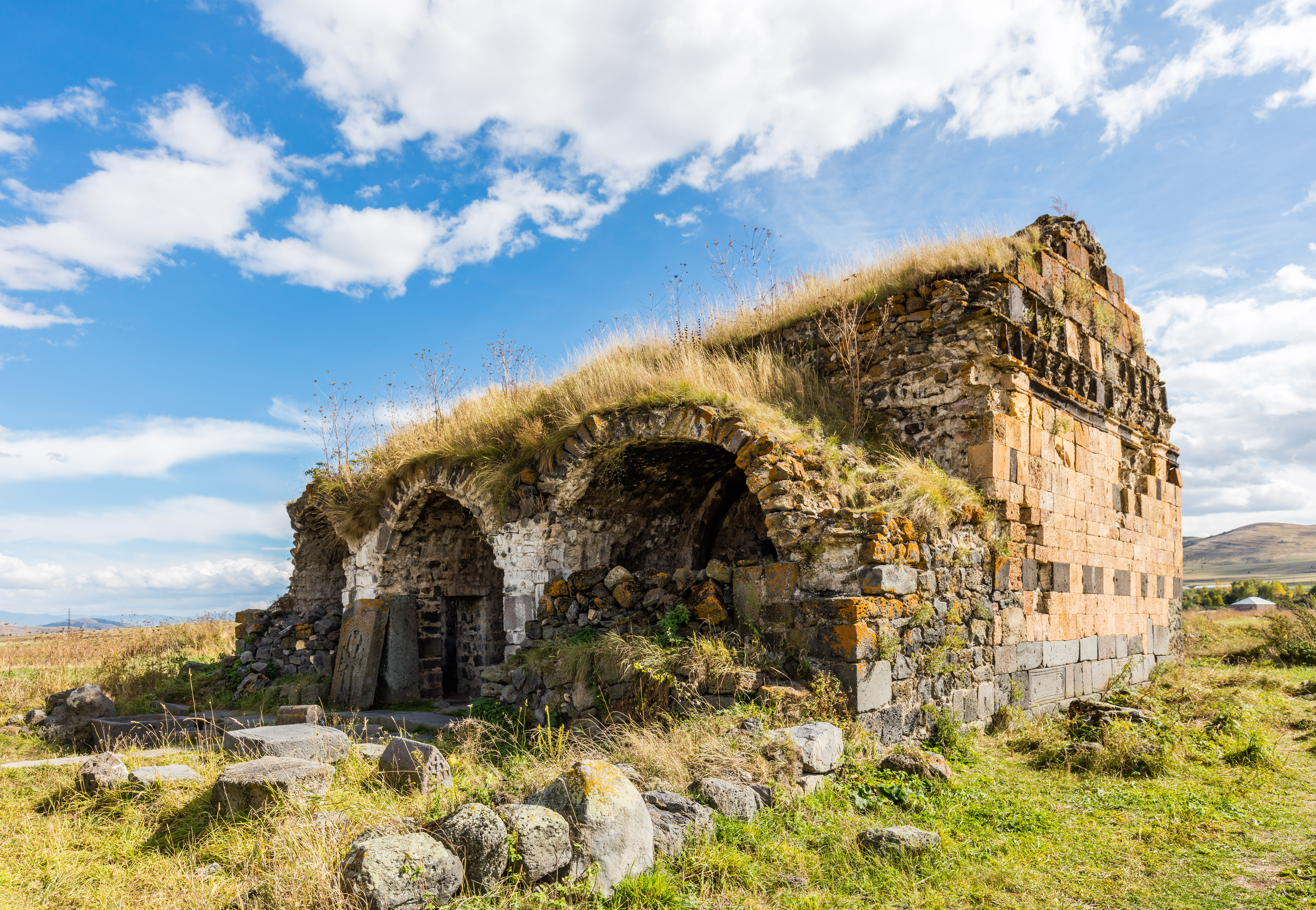 Ruined Armenian church inside Lori Berd (Lori Fortress), an 11th-century fortress located in the Lori Province, Armenia. The fortress was built by David Anhoghin to become the capital of Kingdom of Tashir-Dzoraget in 1065.